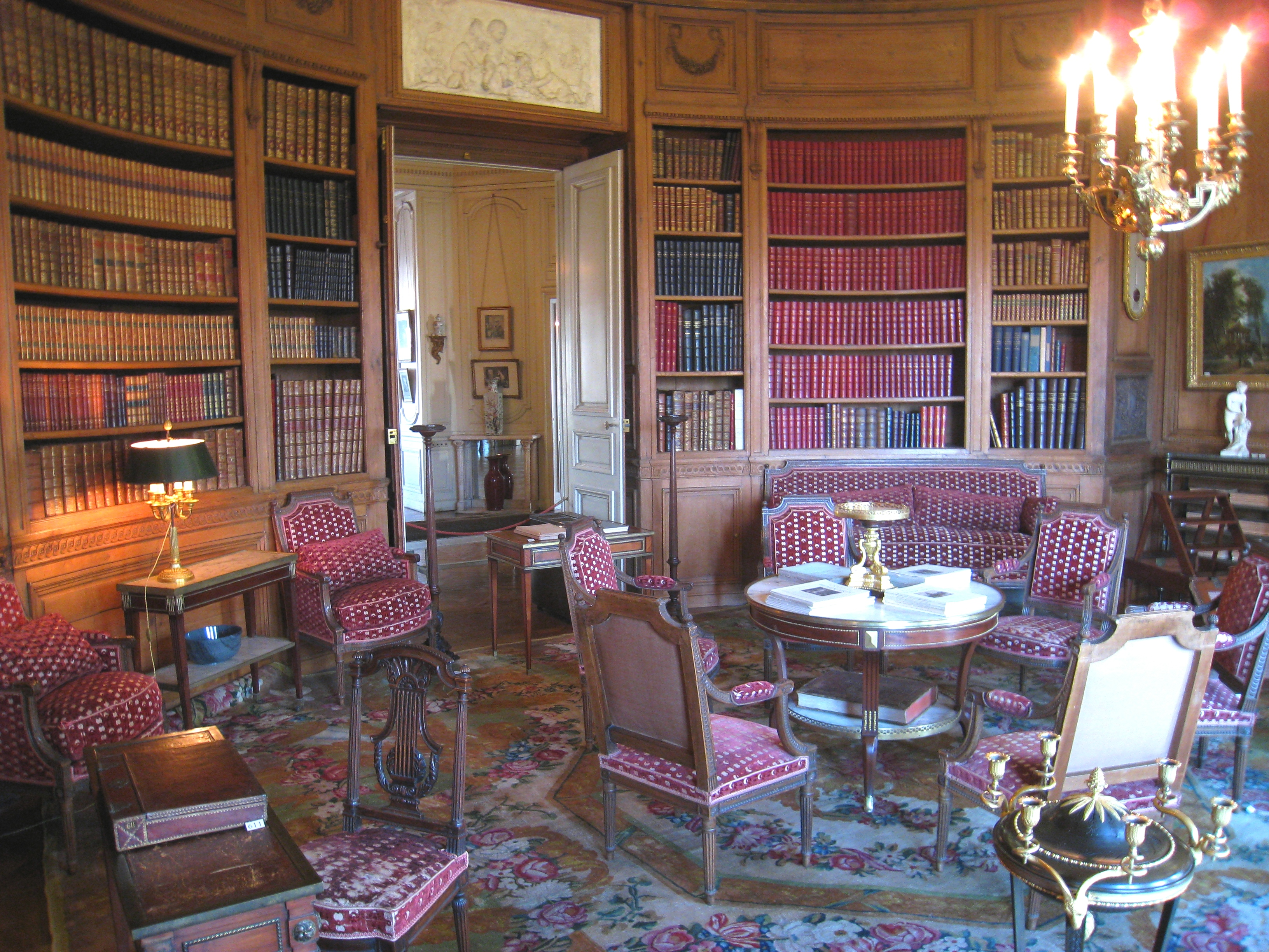 Musée Nissim de Camondo, Paris, France - Library. There were no restrictions on photography (other than prohibiting flash) in writing and when I asked explicitly. Thus the museum did not impose restrictions on the use of this image.